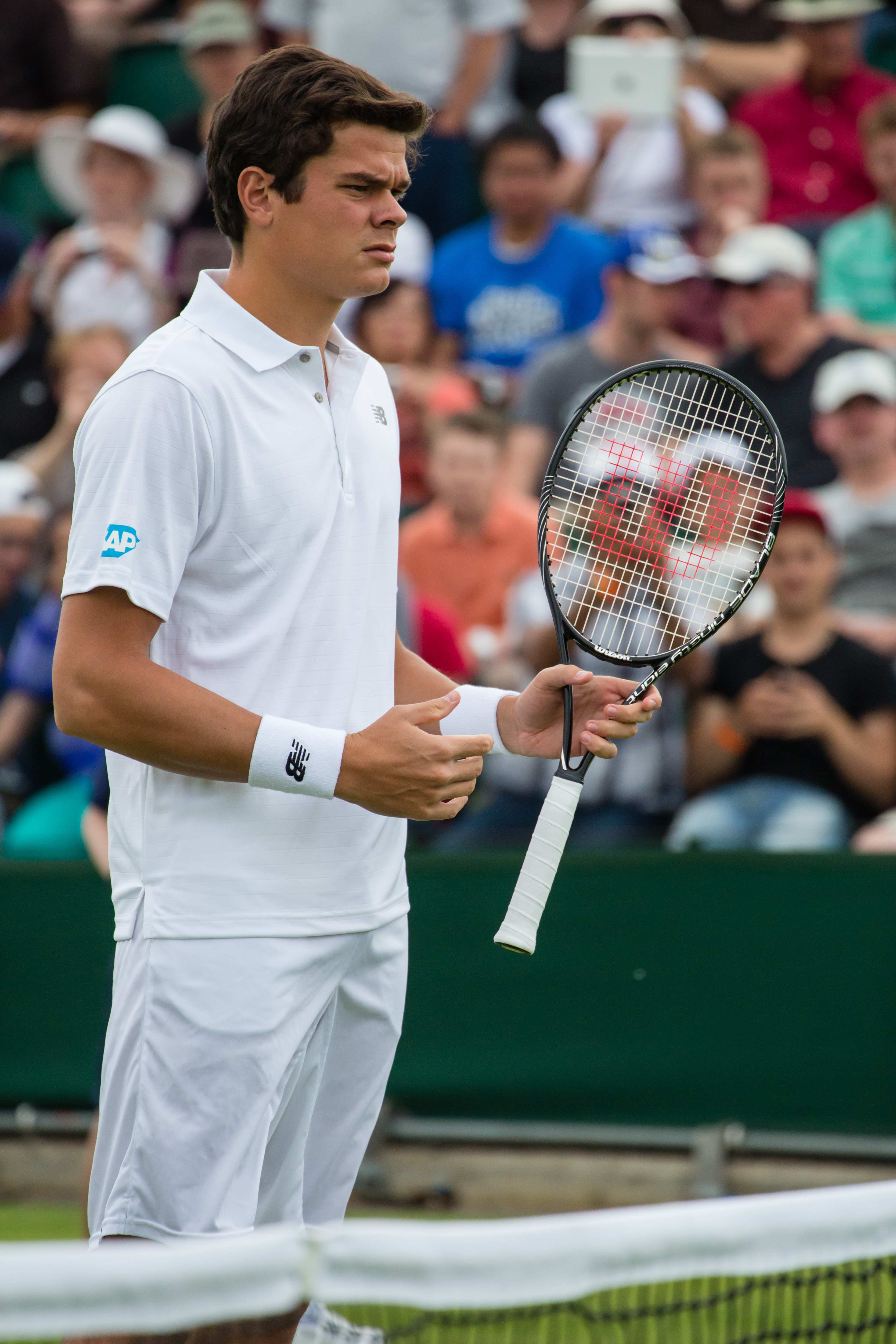 Milos Raonic prior to the start of his match against Carlos Berlocq on court 12 at Wimbledon 2013.